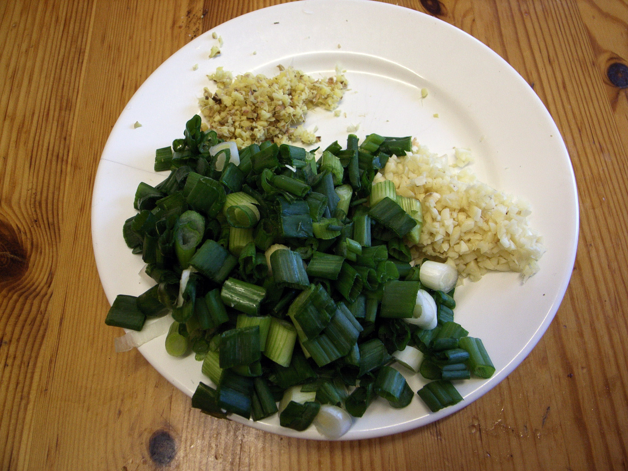 Sliced spring onions, minced garlic, and minced ginger.